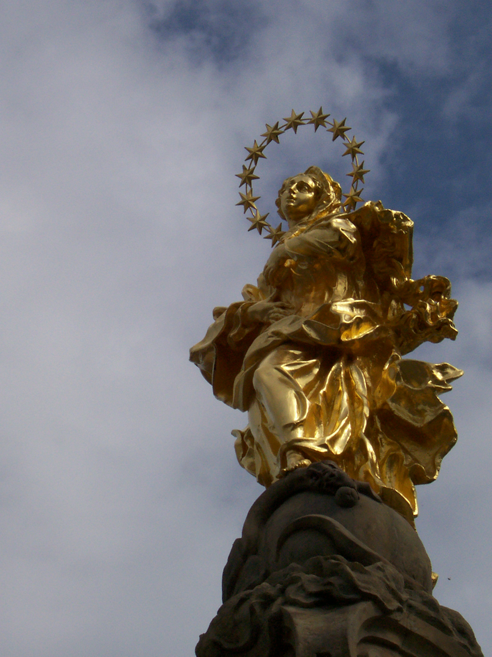 Šternberk: Marian Column - St. Maria